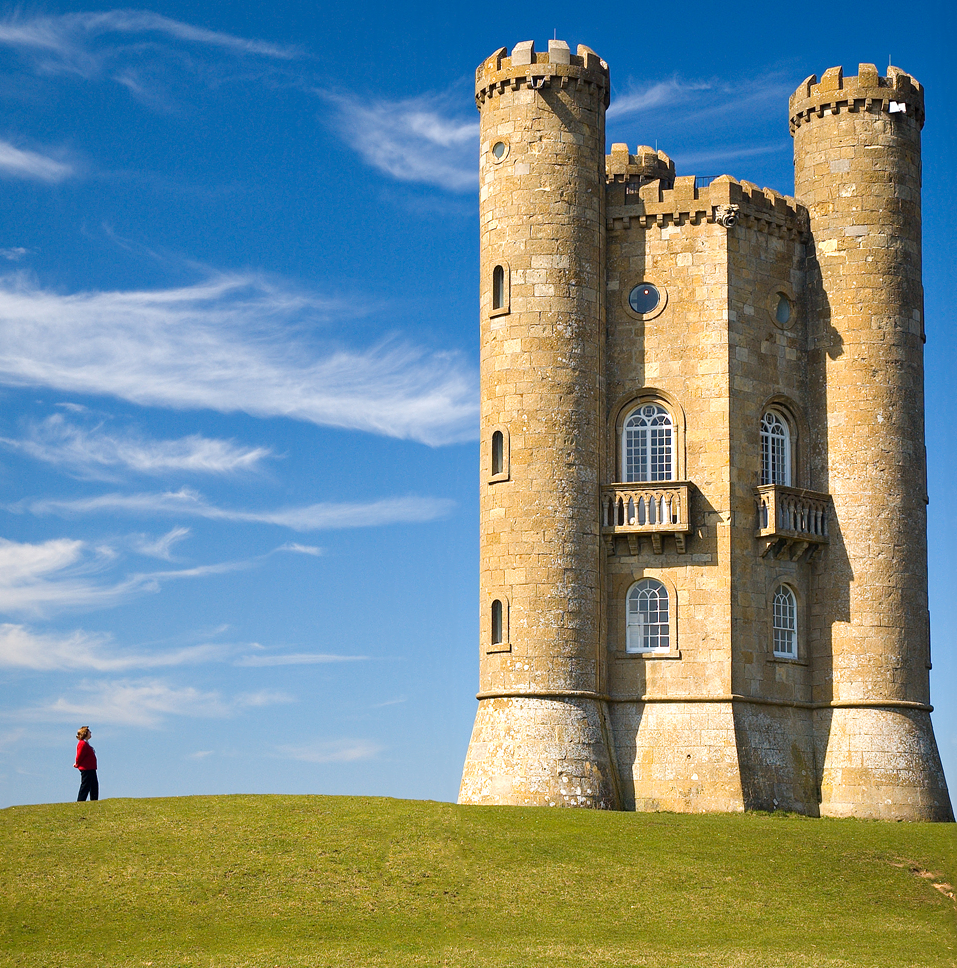 Broadway Tower, Cotswolds, England. Edited version of photo by Newton2, cropped one person from the left.